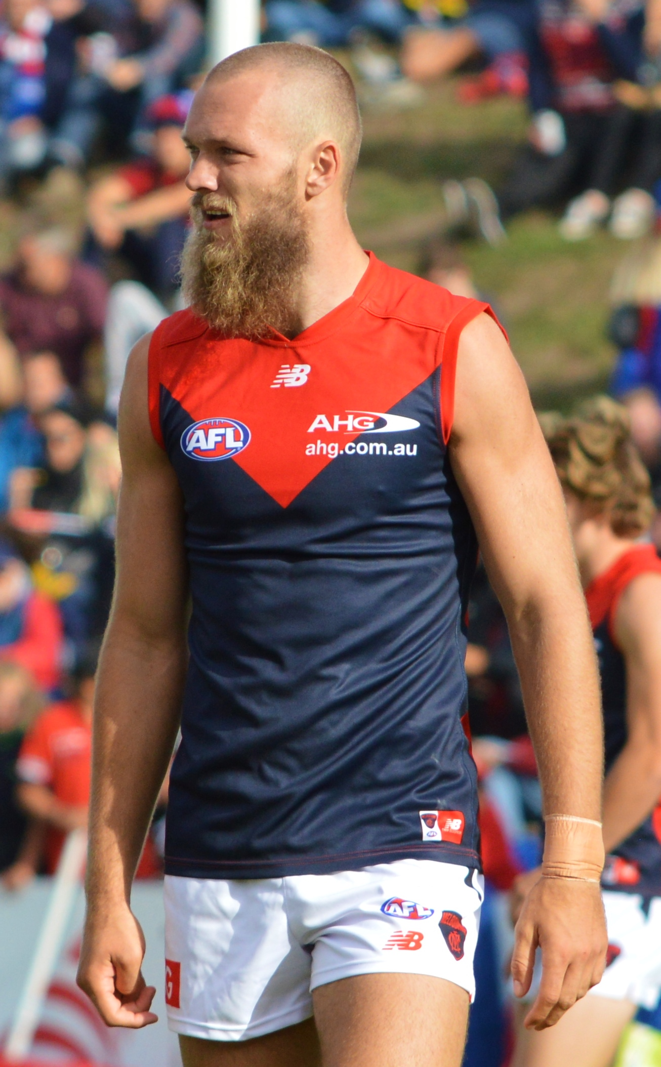 Max Gawn during a pre-season game in February 2017